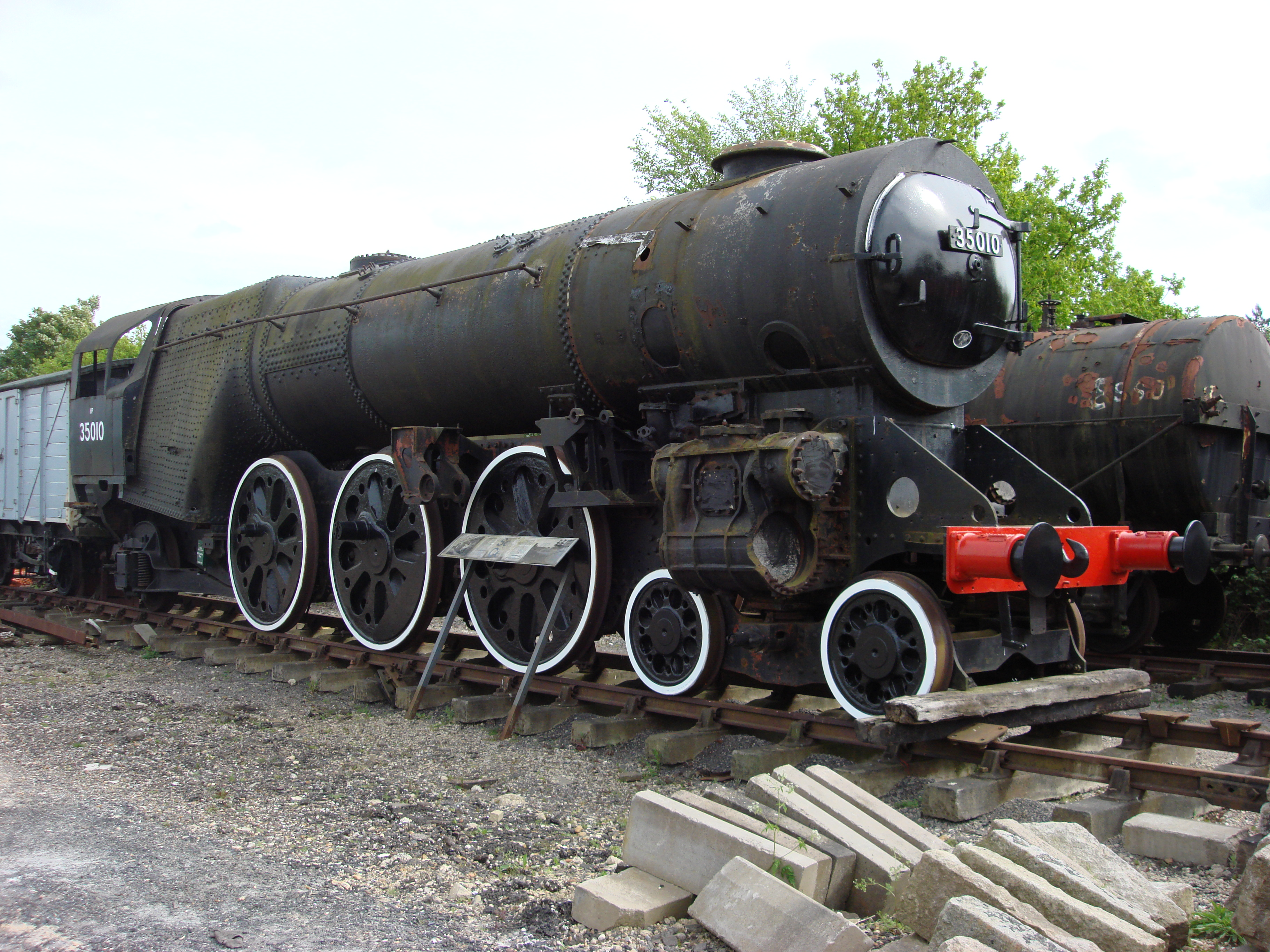 SR 4-6-2 Merchant Navy Class no. 35010 "Blue Star". on Static display awaiting restoration. at the Colne Valley Railway